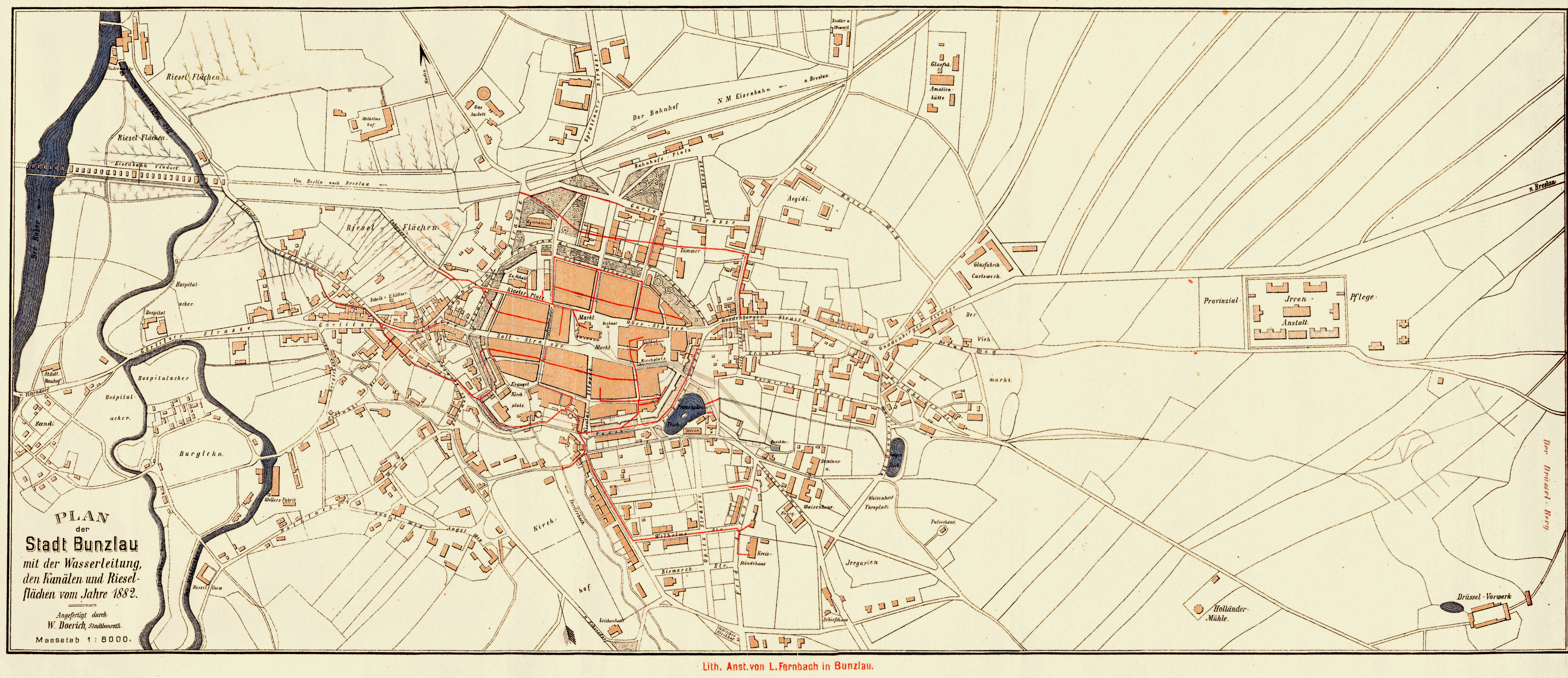 Map of the city of Bunzlau.